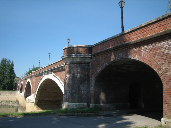 The Old Bridge in Sisak, Croatia. / Sisački Stari most.